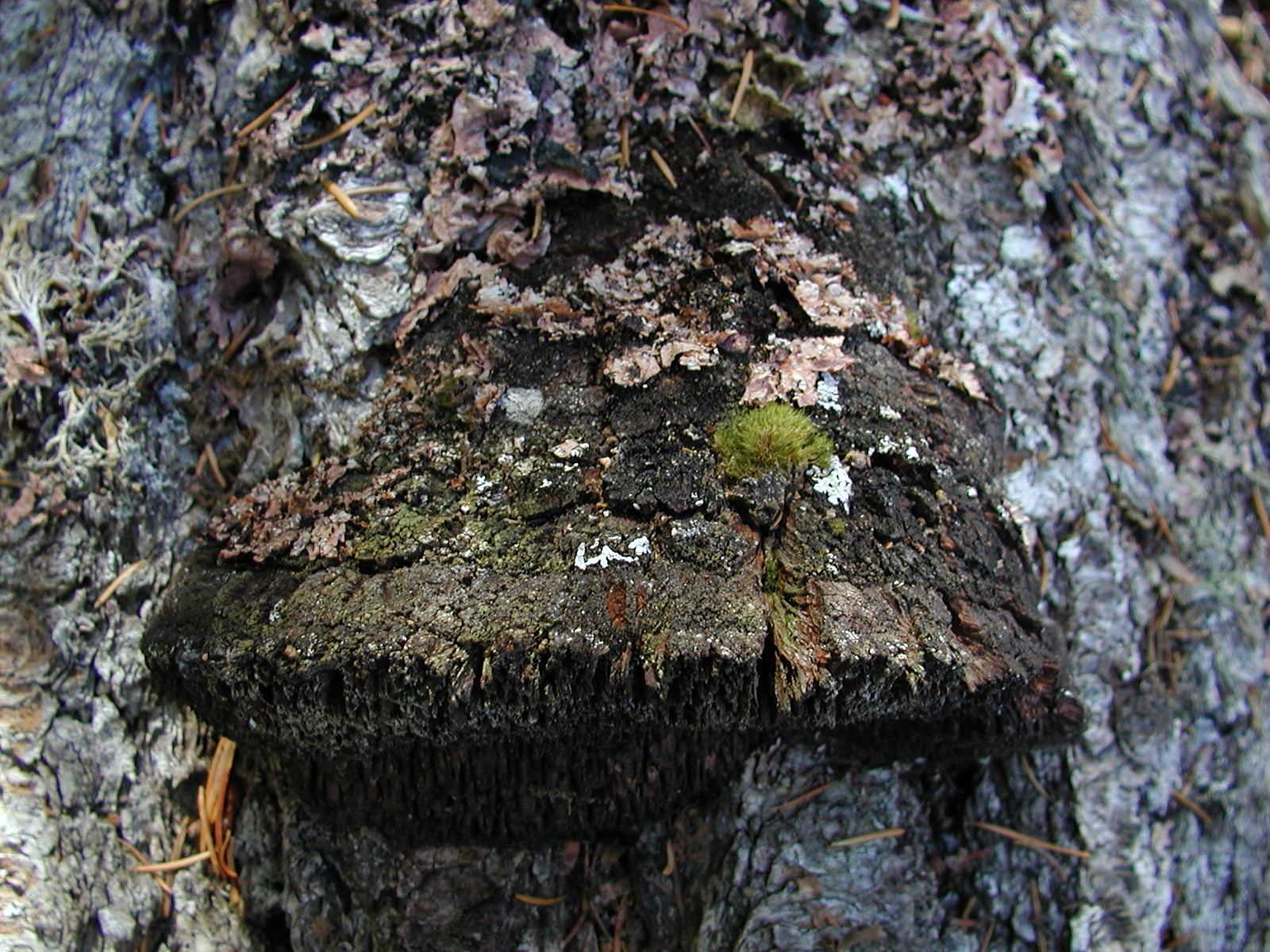 Echinodontium tinctorium, Diamond and Crater Lake, Douglas and Klamath Co., Oregon, USA